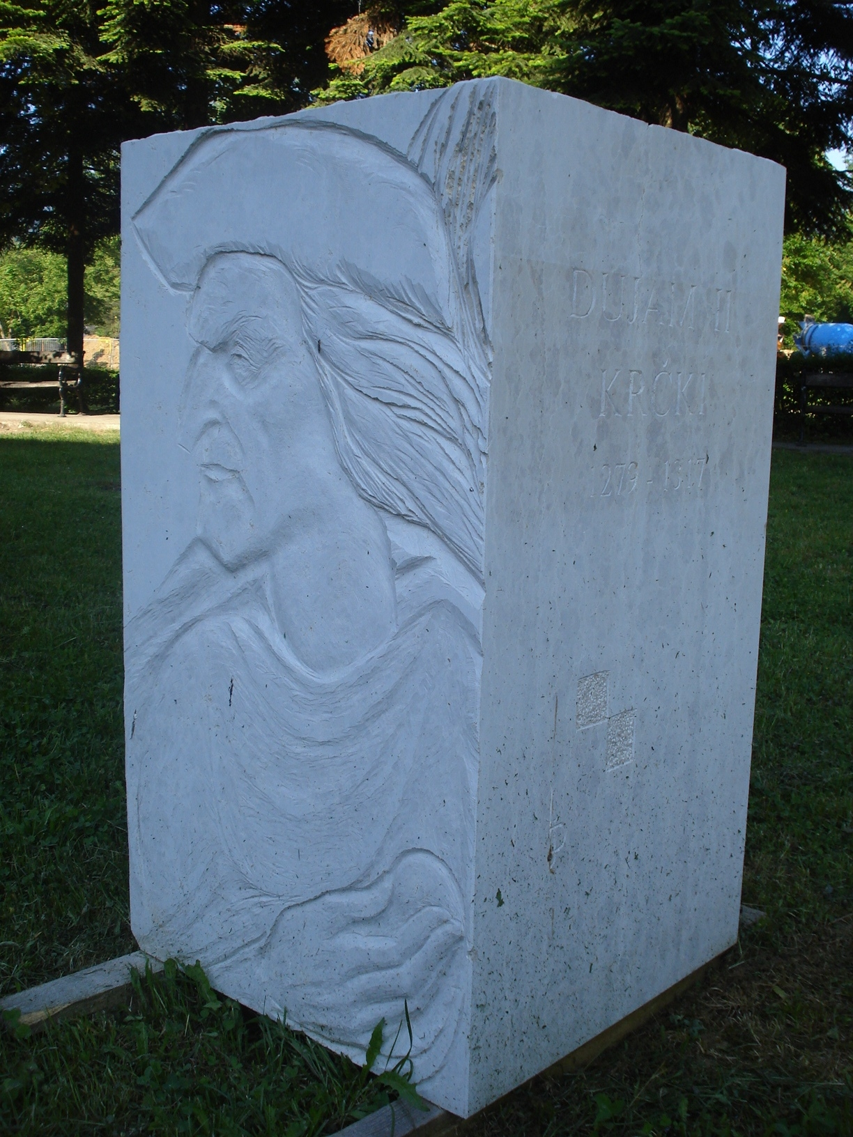 Dujam II Krčki /Doimus or Domnio of Krk/ (*1279-†1317), Prince of Krk, ancestor of the Frankopan family (Croatia) - monument in the town of Otočac, Lika-Senj County